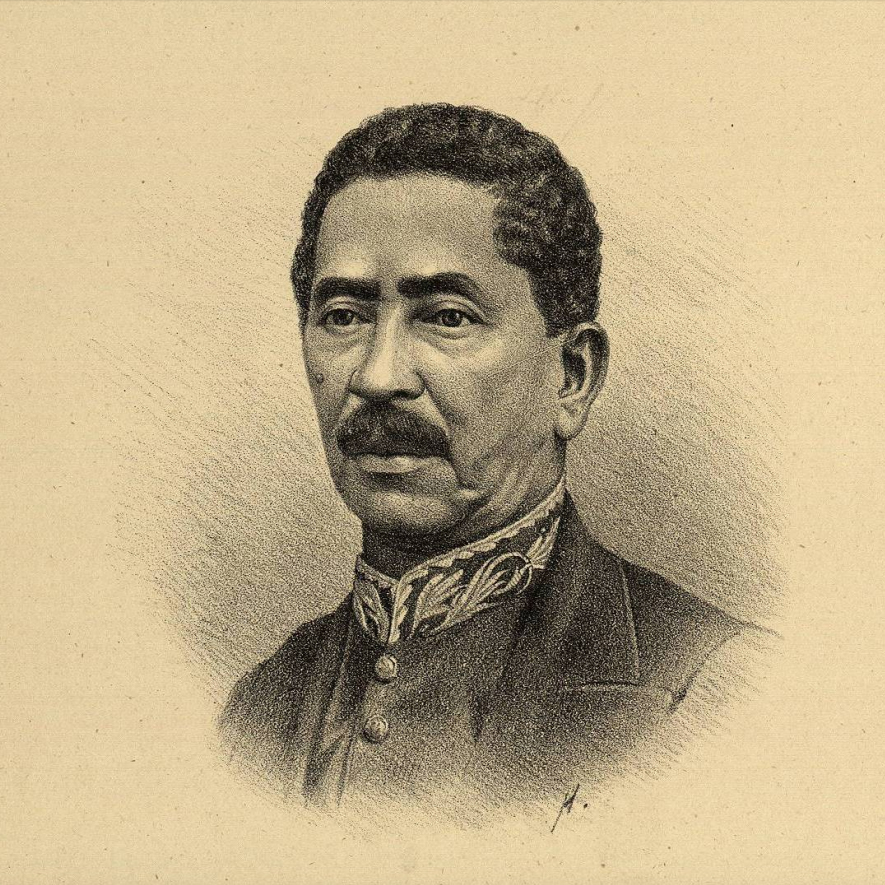 Diego Álvarez Benítez, lithography from the book The prominent men of Mexico, 1888.